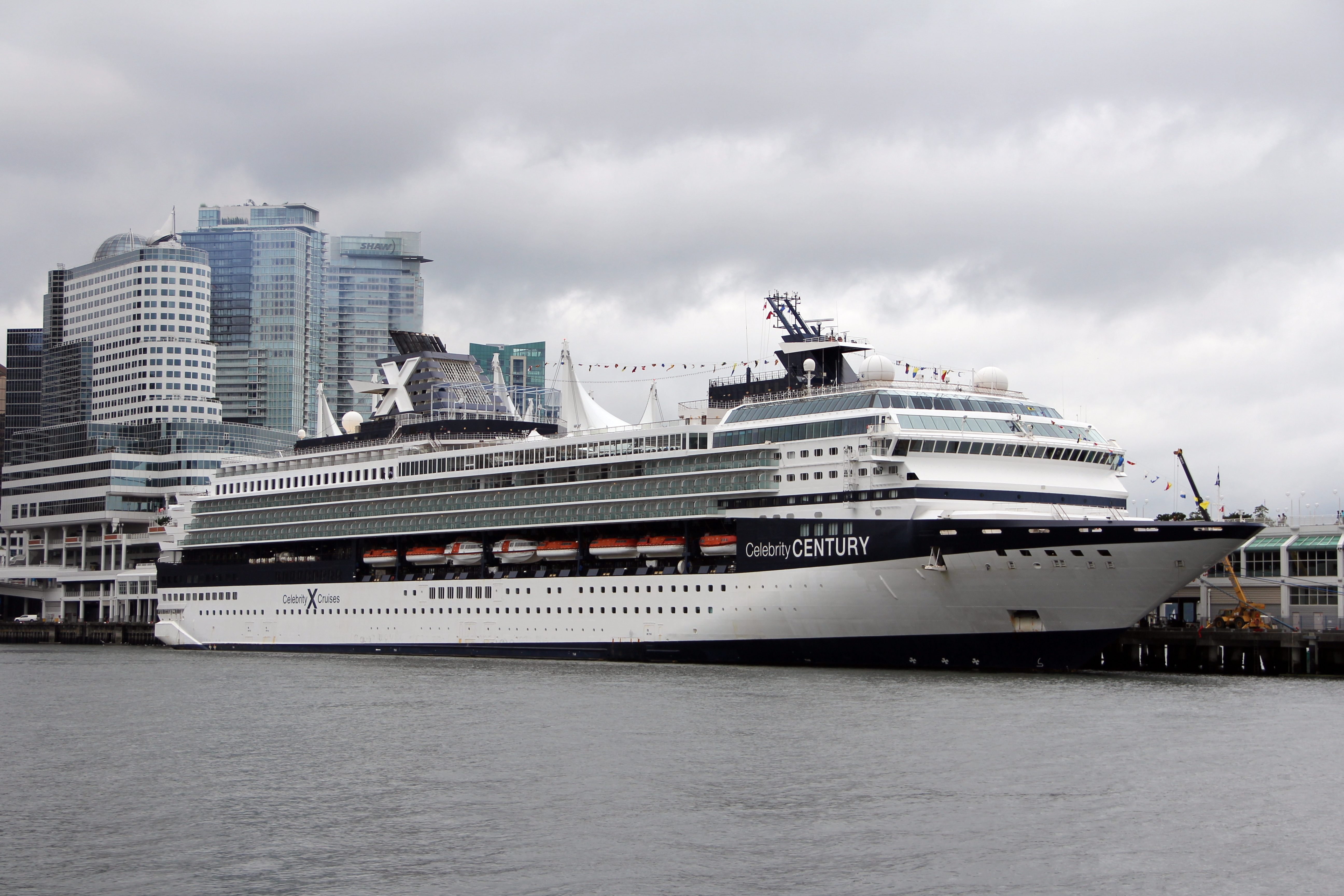 Celebrity Century (ship, 1995) in Burrard Inlet, BC, Canada.